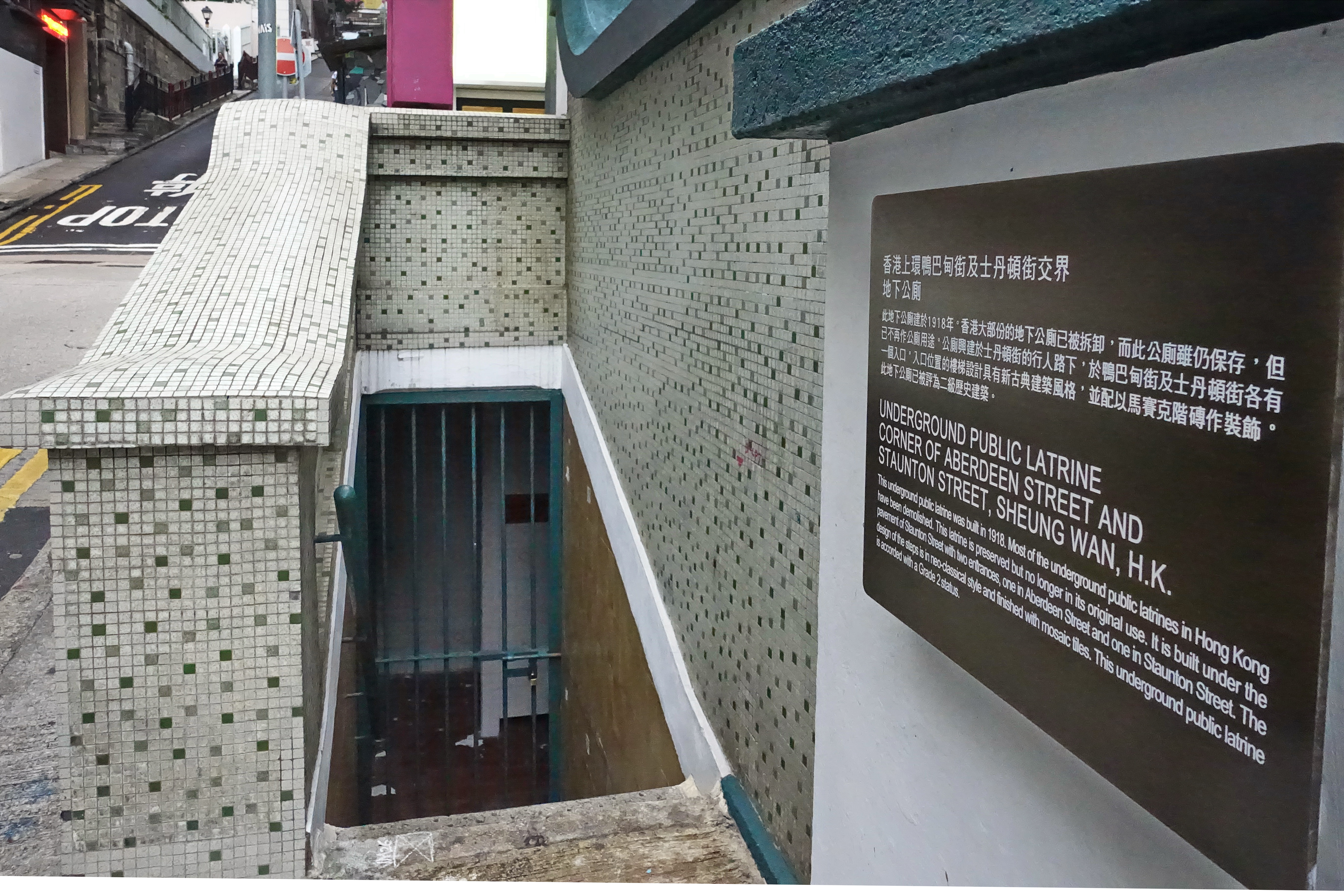 A public latrine at the corner of Aberdeen Street and Staunton Street built in 1918. There are two entrances, one in Aberdeen Street and one in Staunton Street. The design of the steps is in neo-dassical style with mosaic tile finishing. This latrine is a delcared monument of Hong Kong (Grade 2).